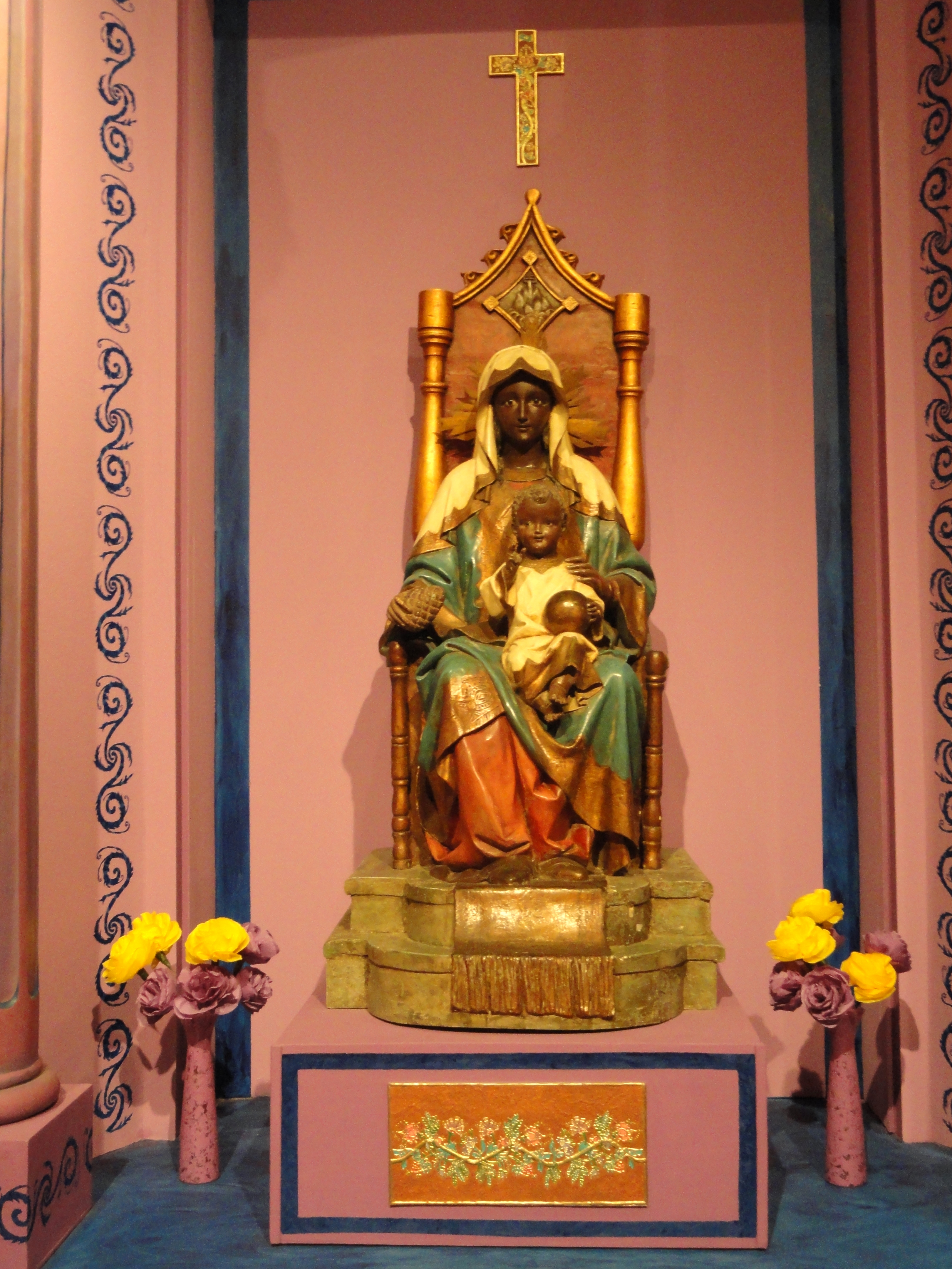 Colonial collection in the Museo de las Americas, Old San Juan, Puerto Rico.